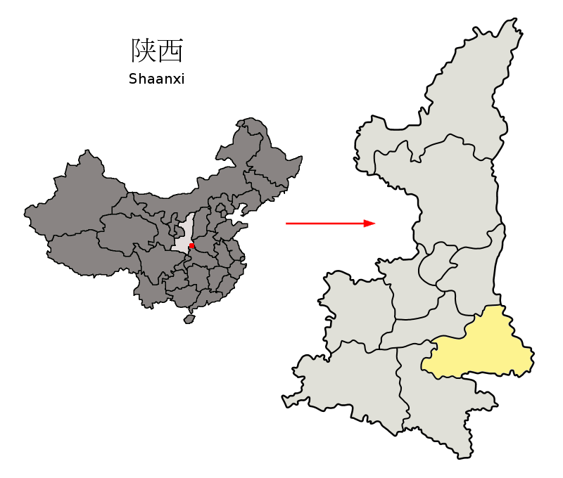 Location of Shangluo Prefecture (yellow) within Shaanxi Province of China Map drawn in december 2007 using various sources, mainly : Shaanxi Province administrative regions GIS data: 1:1M, County level, 1990 Shaanxi Counties map from